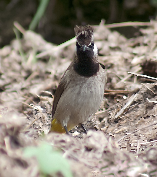 Himalayan Bulbul Pycnonotus leucogenys in Kullu District of Himachal Pradesh, India.